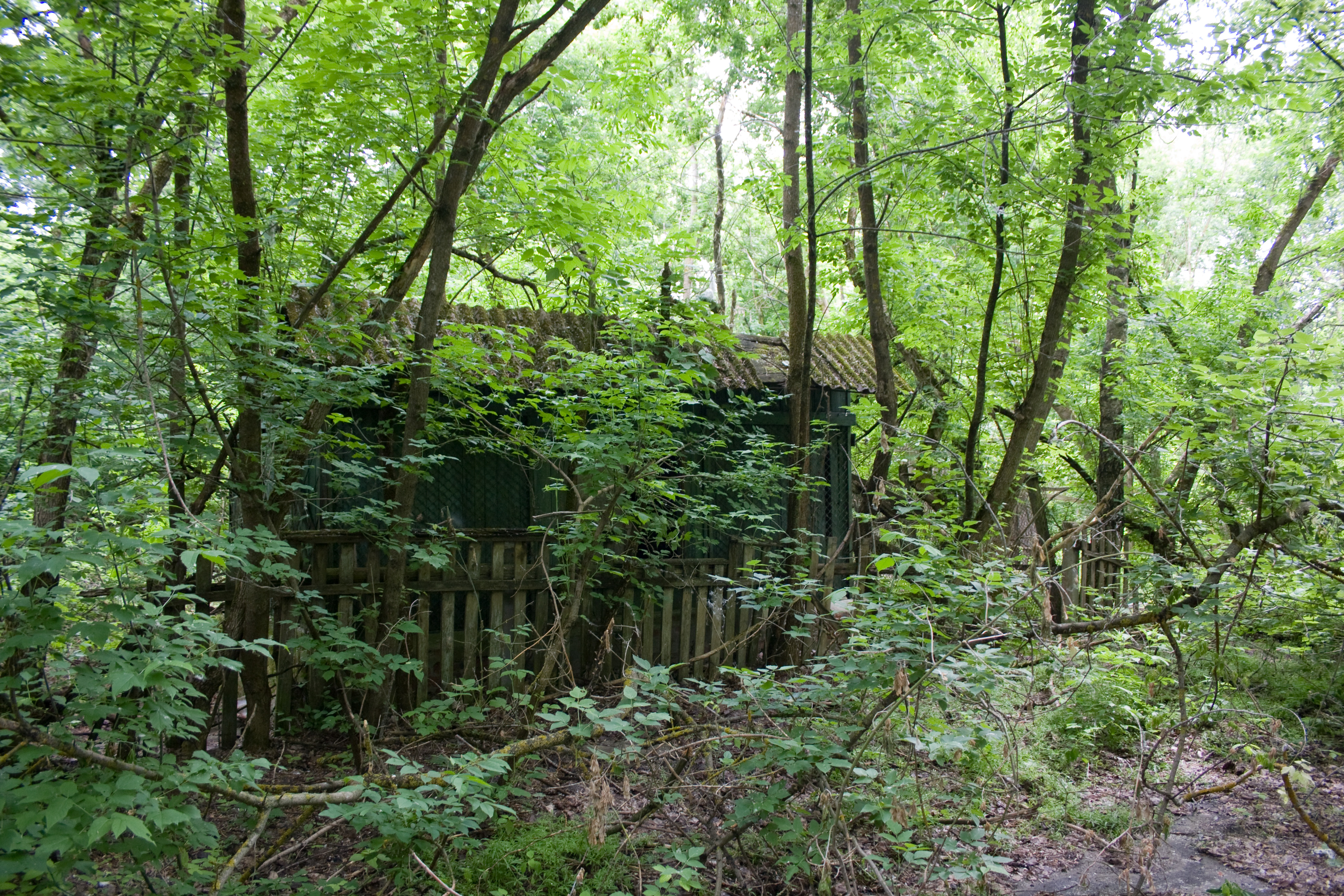 Chernobyl nuclear power plant area, Ukraine